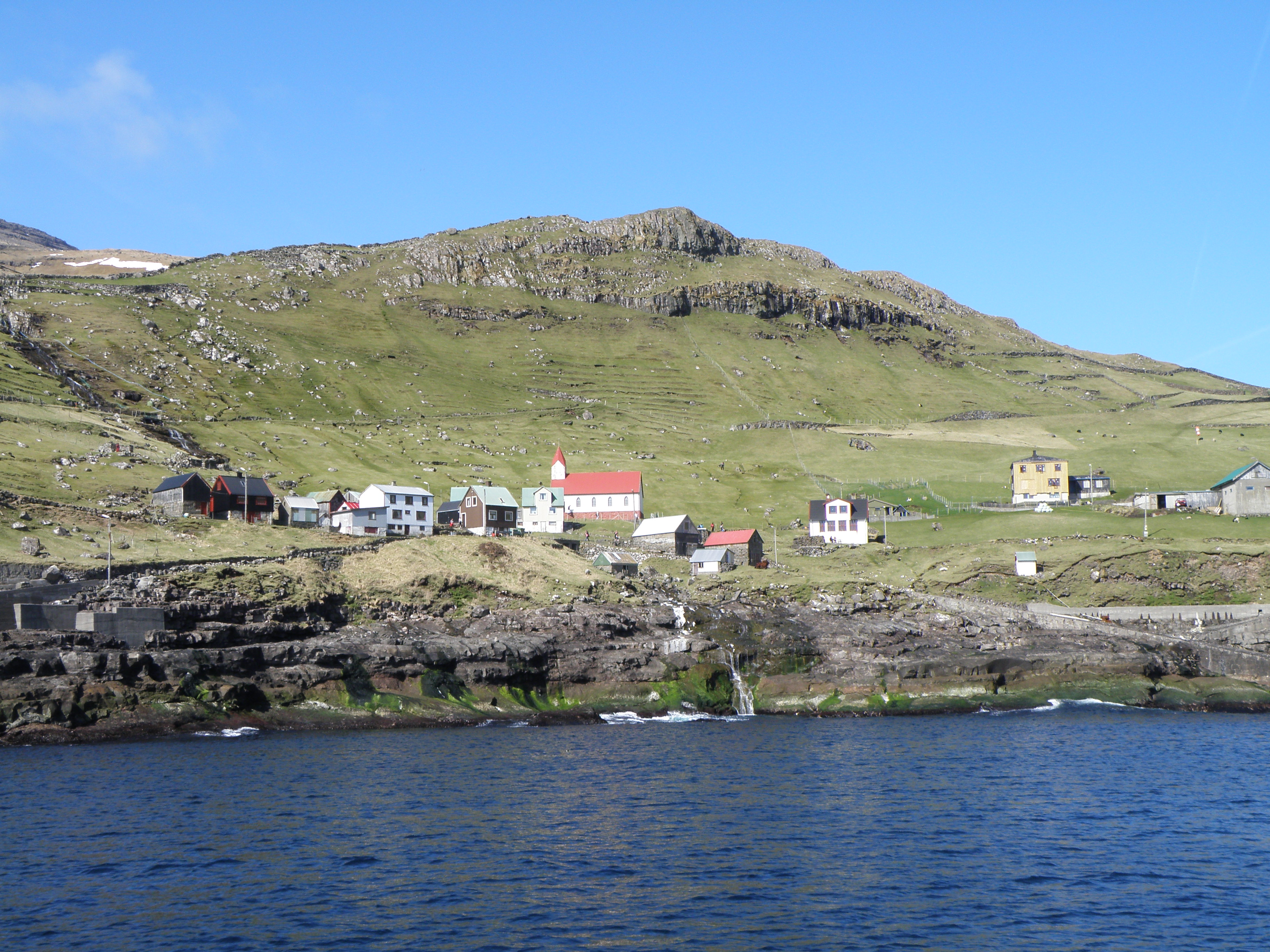 Hattarvík is a village on Fugloy island in the Faroe Islands. Fugloy means Bird Island, it is one of the islands in the Northern Islands (Norðoyar or Norðoyggjar). This photo is also on Flickr: Føroyskt: Hattarvík er onnur av tveimum bygdum á Fugloynni í Føroyum.